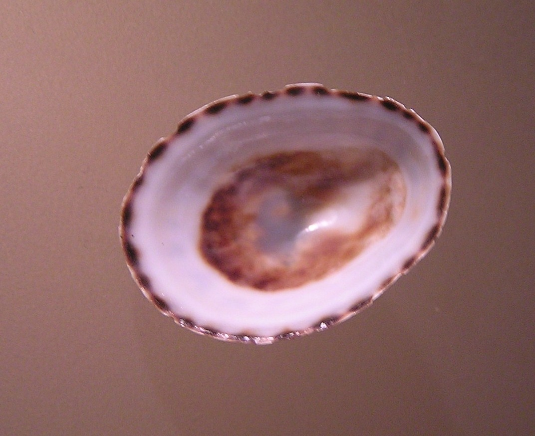 Lottia luchuana Pilsbry, 1901, a true limpet from the family Lottiidae; Japan